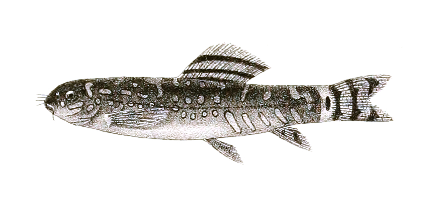 The species names / identity need verification - original names from plate are included here. The original plates showed the fishes facing right and have been flipped here. Nemacheilus pulchellus